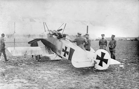 The German general Erich von Falkenhayn and ace Manfred von Richthofen inspecting a Fokker Dr.I triplane.